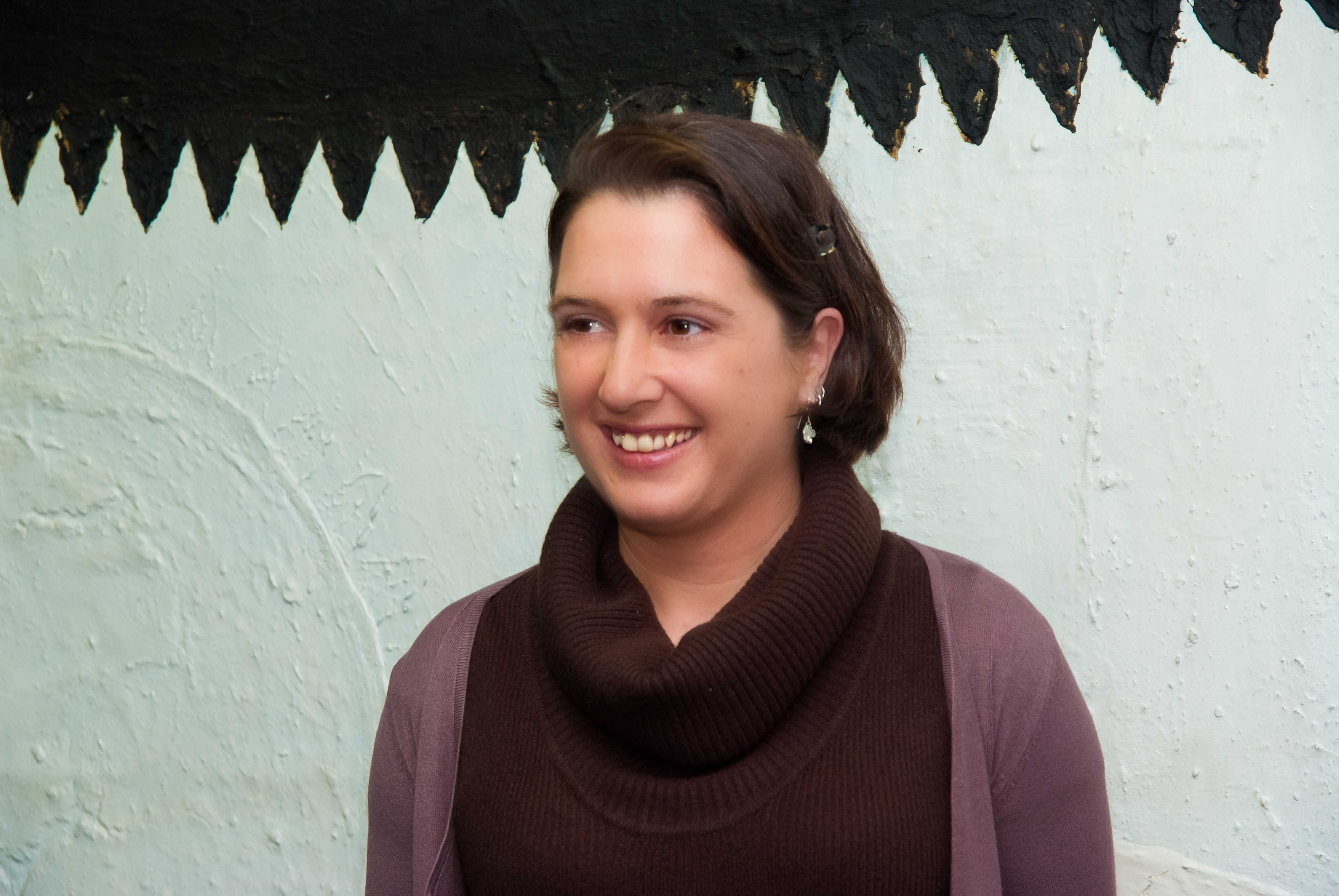 Photograph of Eli Ríos